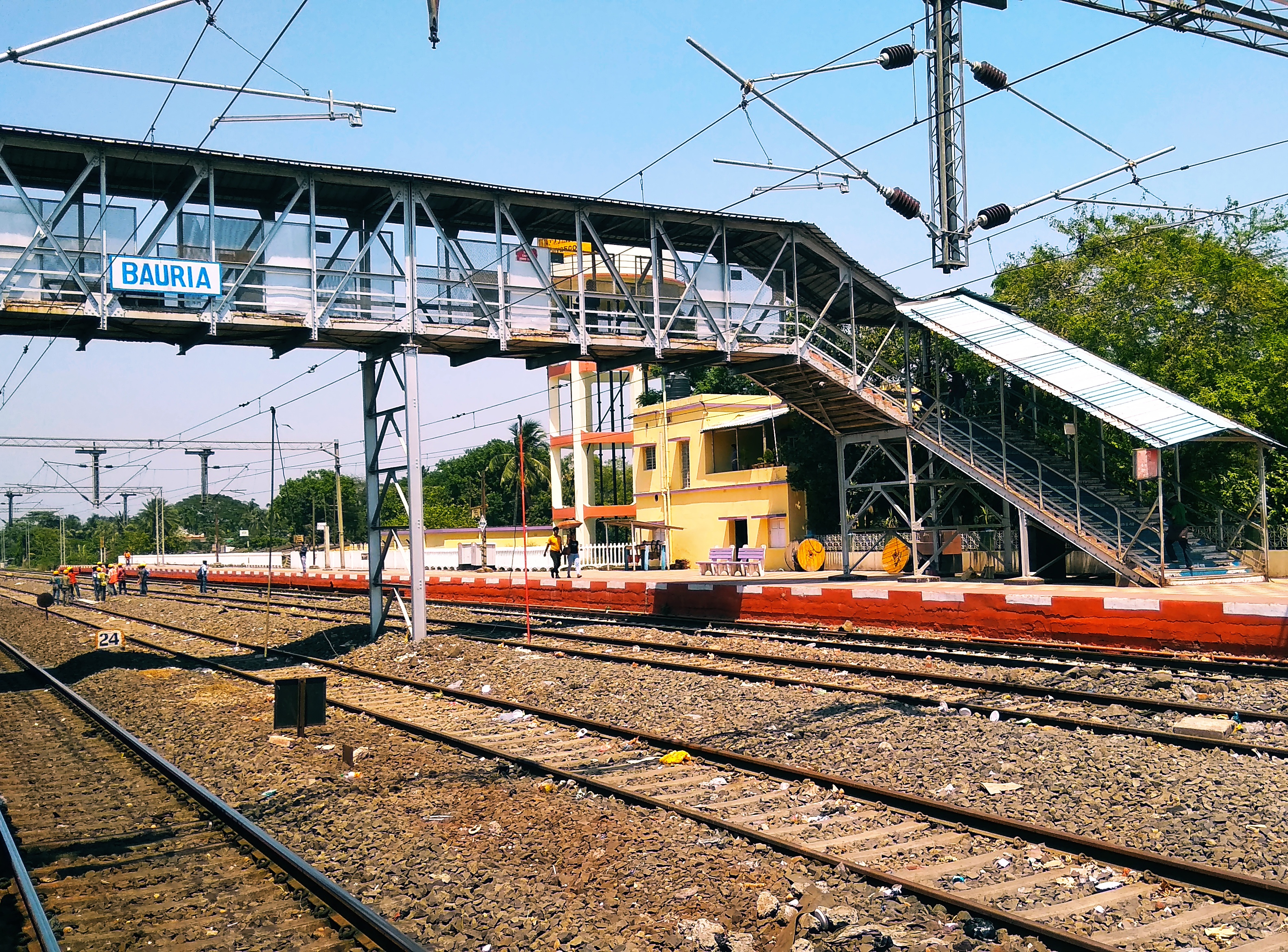 This is Bauria Railway Station..